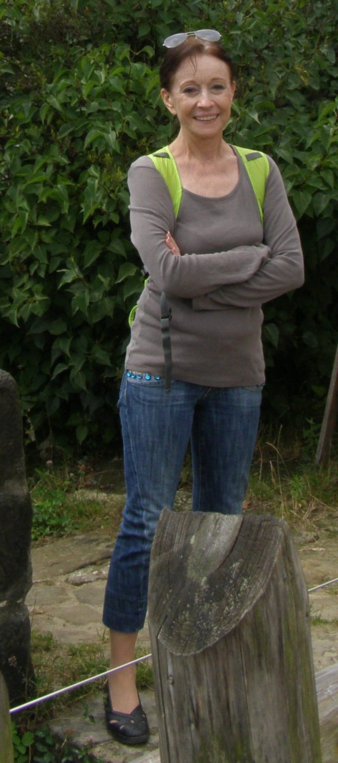 Michaela Lesařová-Roubíčková (* 19th April 1949, Prague) is a Czech graphic artist, artist, illustrator, jeweler and designer. Her father was glass designer René Roubíček, her mother was glass designer Miluše Roubíčková. Michaela Lesařová-Roubíčková lives in Prague, she graduated from the Academy of Arts, Architecture and Design in Prague (1973: graphic design and illustrations, atelier of Professor Karel Svolínský and Professor Zdeněk Sklenář). She workes on free and used graphics, illustrations, drawings, paintings, weaving and three-dimensional objects from various materials (jewelry, fashion and home accessories, glass). She designed and made a scene for Viola Poetry Theater in Prague. She is a successor to the glass tradition of René and Miluše Roubíčková.